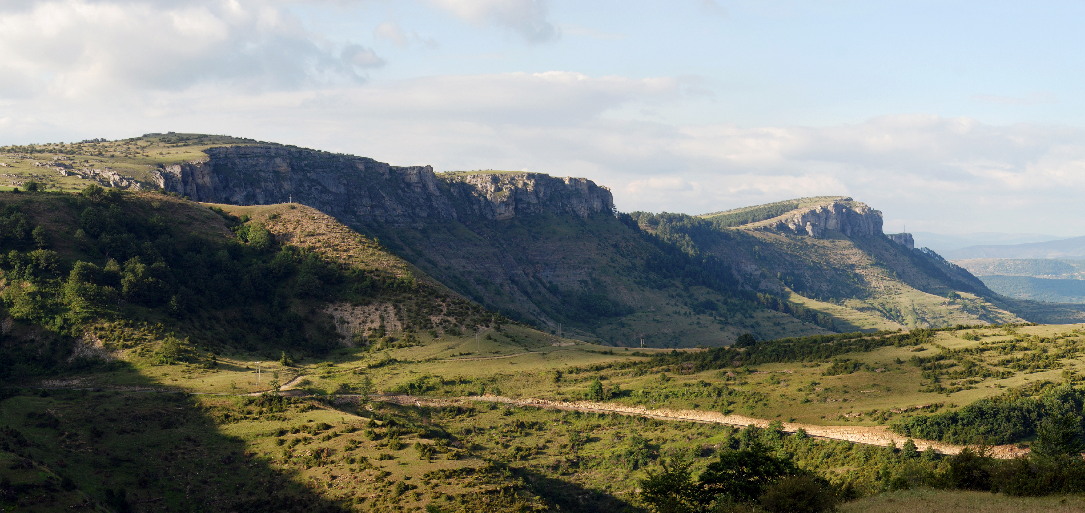 Evening view from Col de Perjuret on the south edge of the Causse Méjean plateau in the Cevennes, France. Panoram stitched from several shoots. Camera data Camera Nikon D80 Lens Nikkor AF-S DX VR 18-200mm 3.5-5.6G IF-ED Focal length 50 mm Aperture f/8 Exposure time 1/250 s Sensivity ISO 200